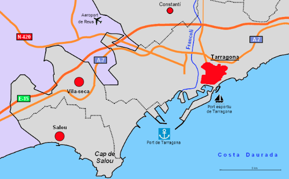 Map of the industrial area in Tarragonès, Catalonia